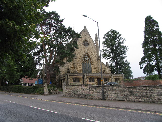 Parish church of the Holy Apostles, London Road, Charlton Kings, Cheltenham, Gloucestershire, seen from the northwest. The church is on the fork between the A40 London Road and A435 Cirencester Road.